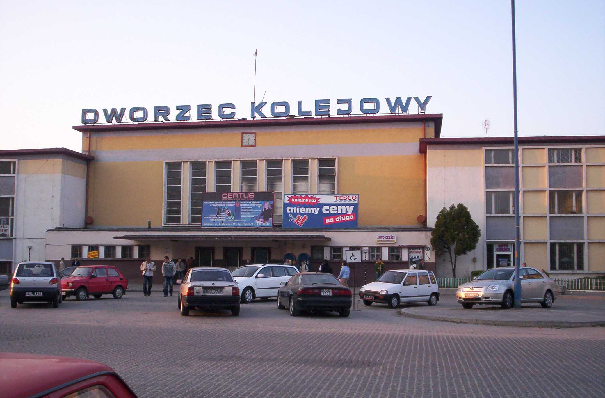 Train station in Głogów. Picture taken on April 24, 2005 by Paweł Dembowski